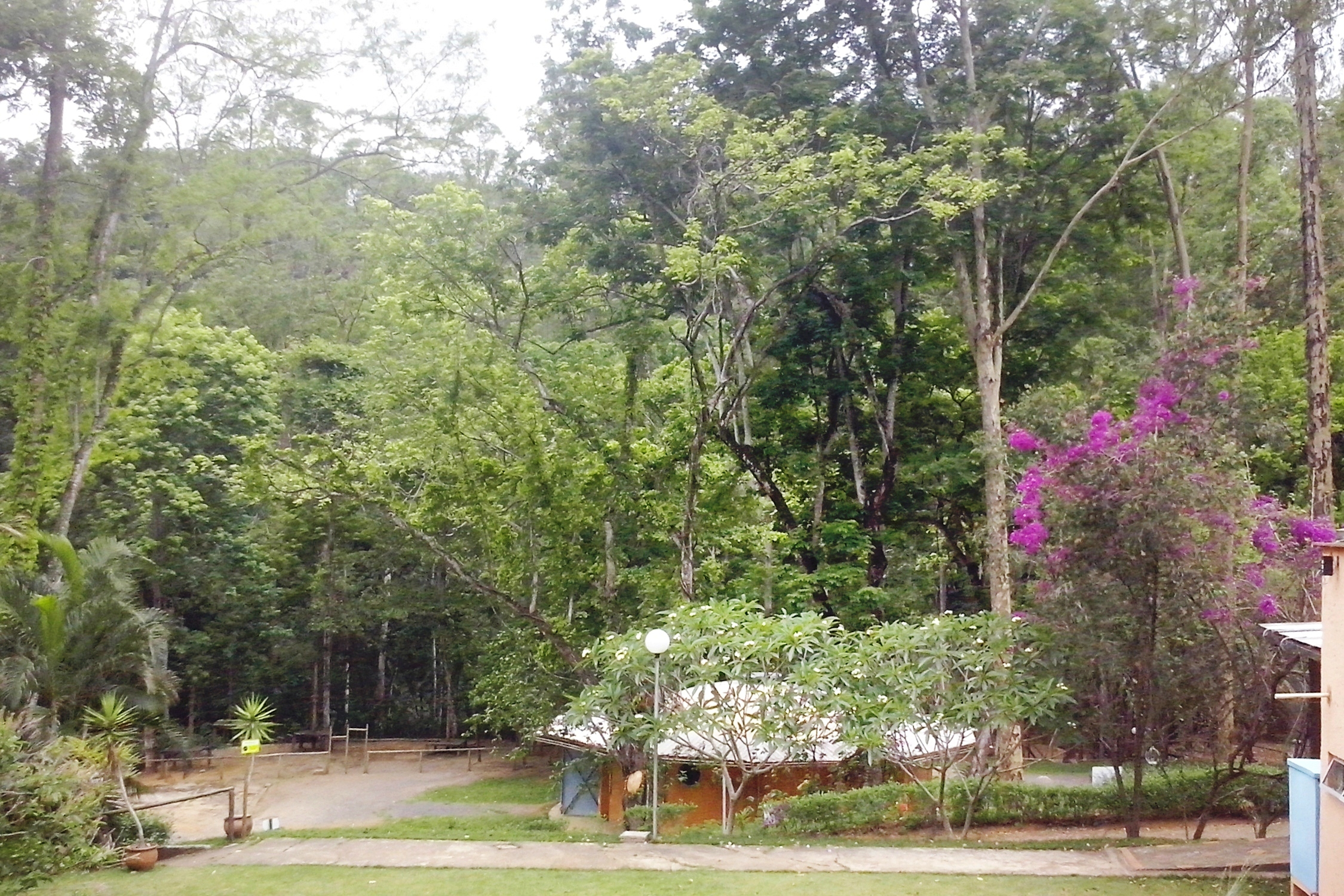 Arborization in the interior of the Oikós project, in Timóteo, Minas Gerais, Brazil.